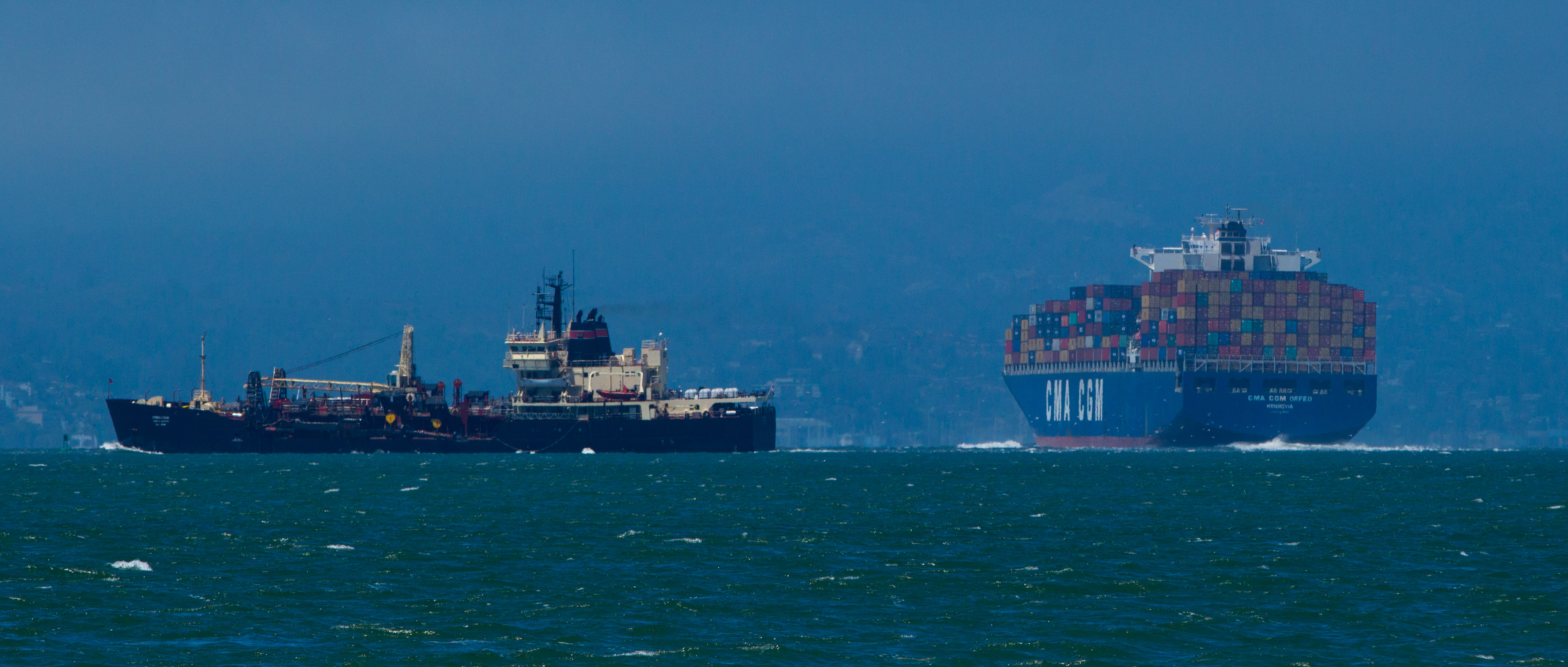 Boats in San Francisco bay